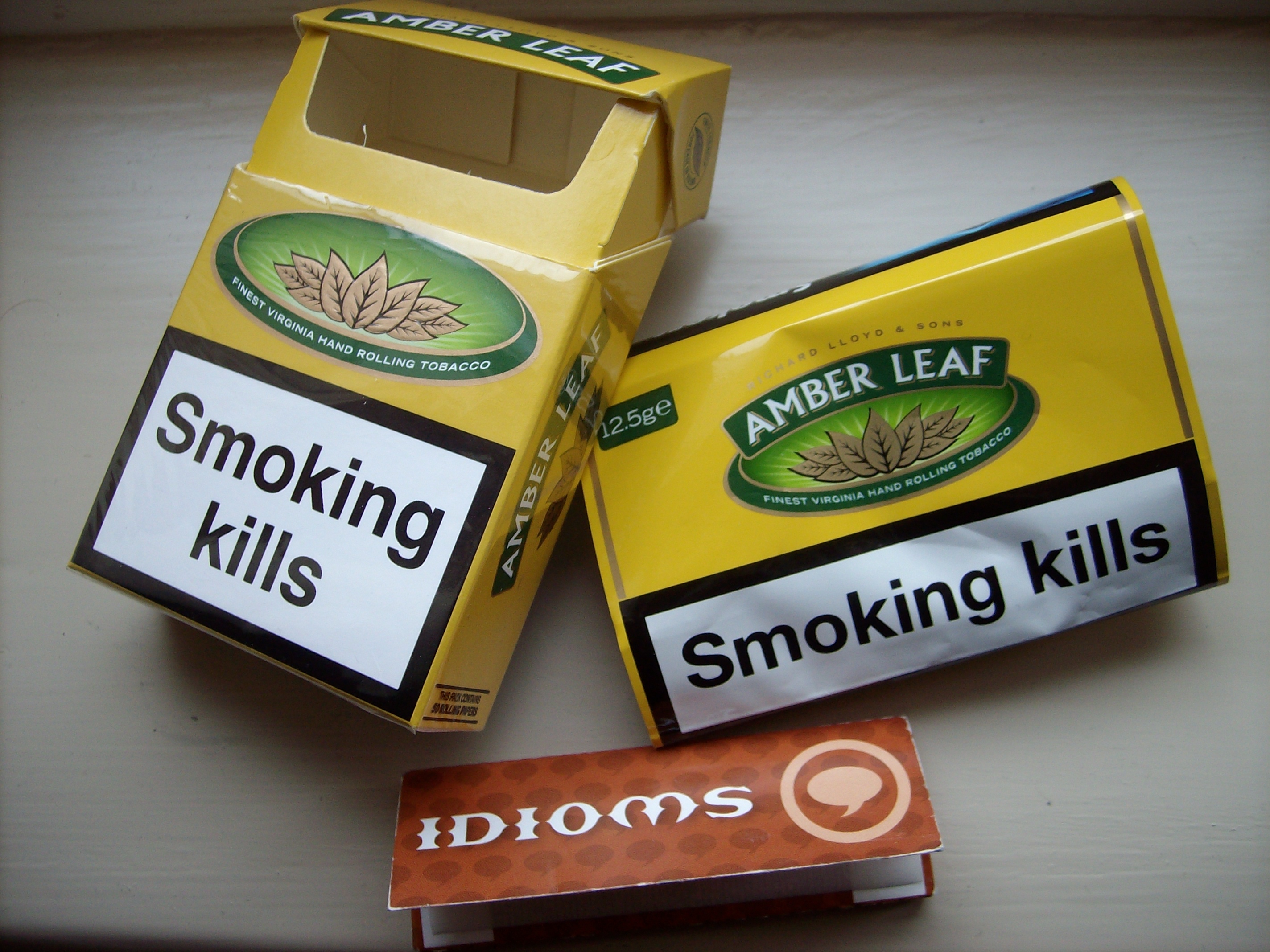 A 12.5G Pouch of Amber Leaf tobacco and free rolling papers